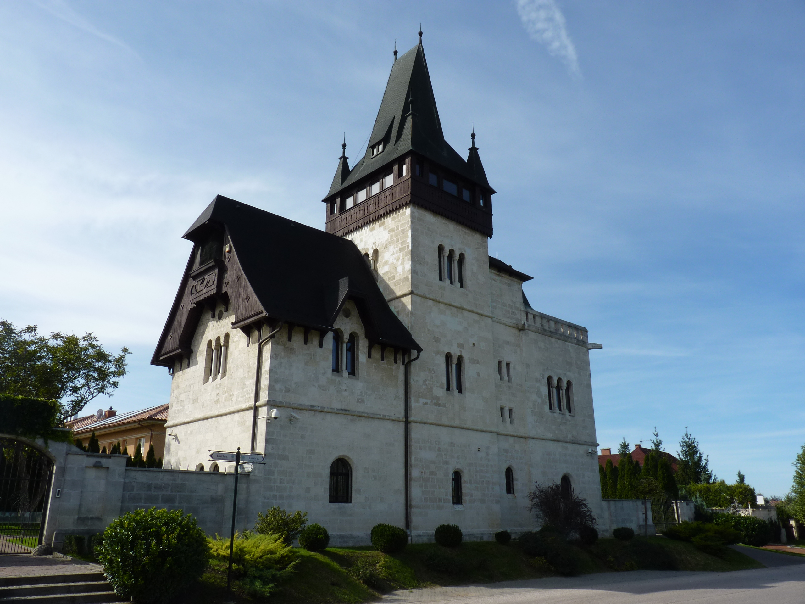 Walla mansion, Törökbálint